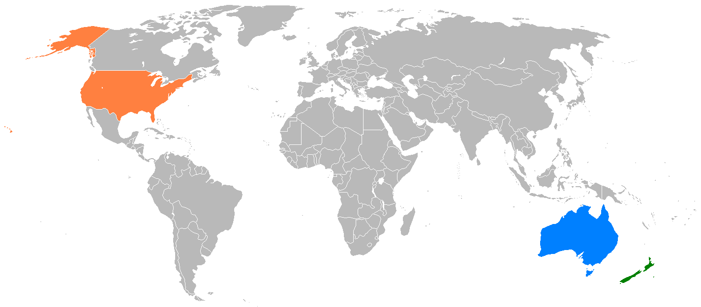 Map showing ANZUS participant countries.